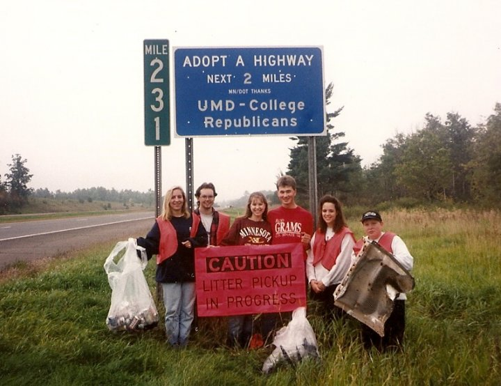 Helping the community. What I needed was help with my hair. Wow!